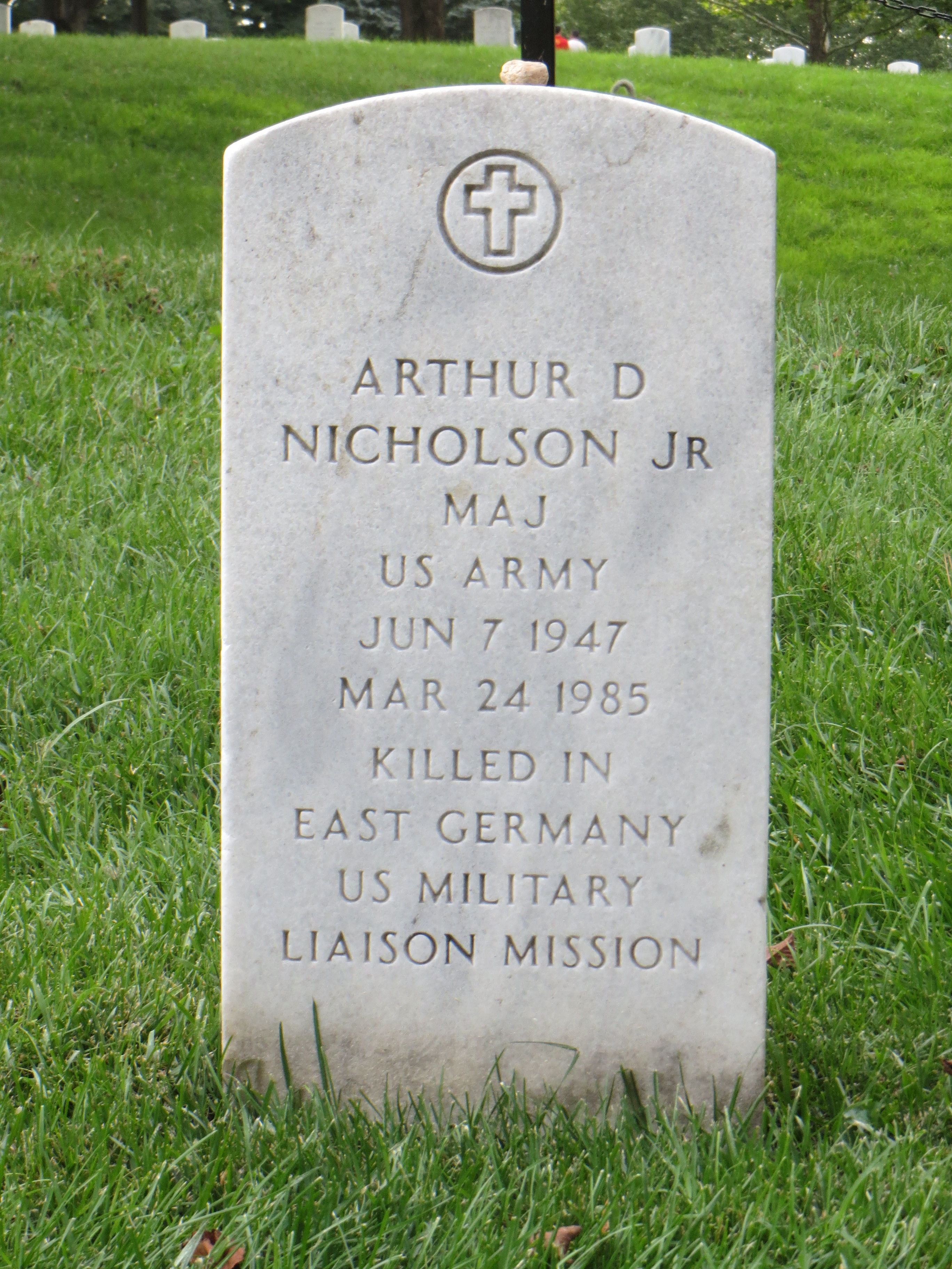 Grave of Major Arthur D. Nicholson at Arlington Cemetery (Section 7A, Grave 171)